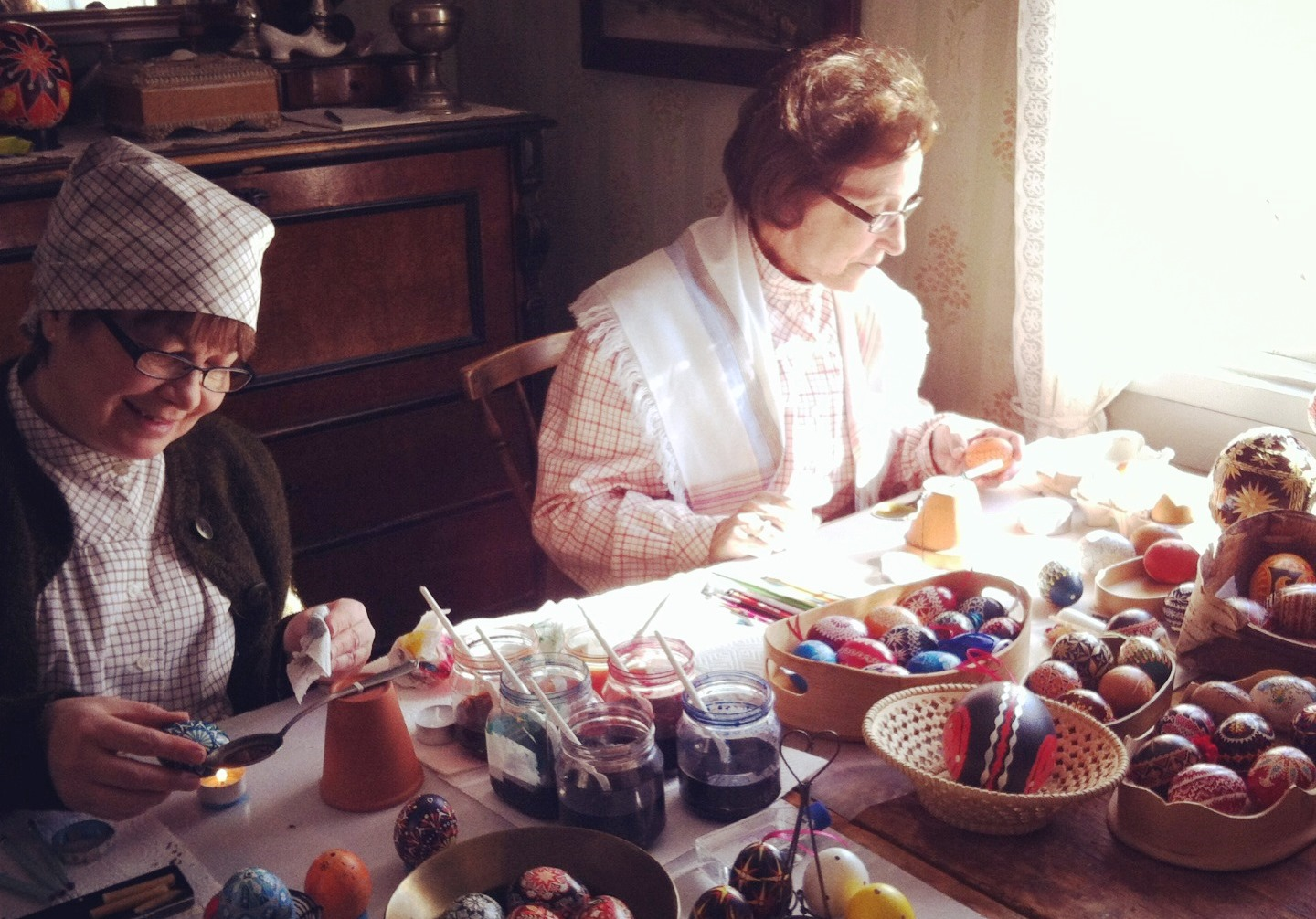 Egg decorators doing their work at the Cloister Hill outdoor museum in Turku Finland, during Easter 2011.